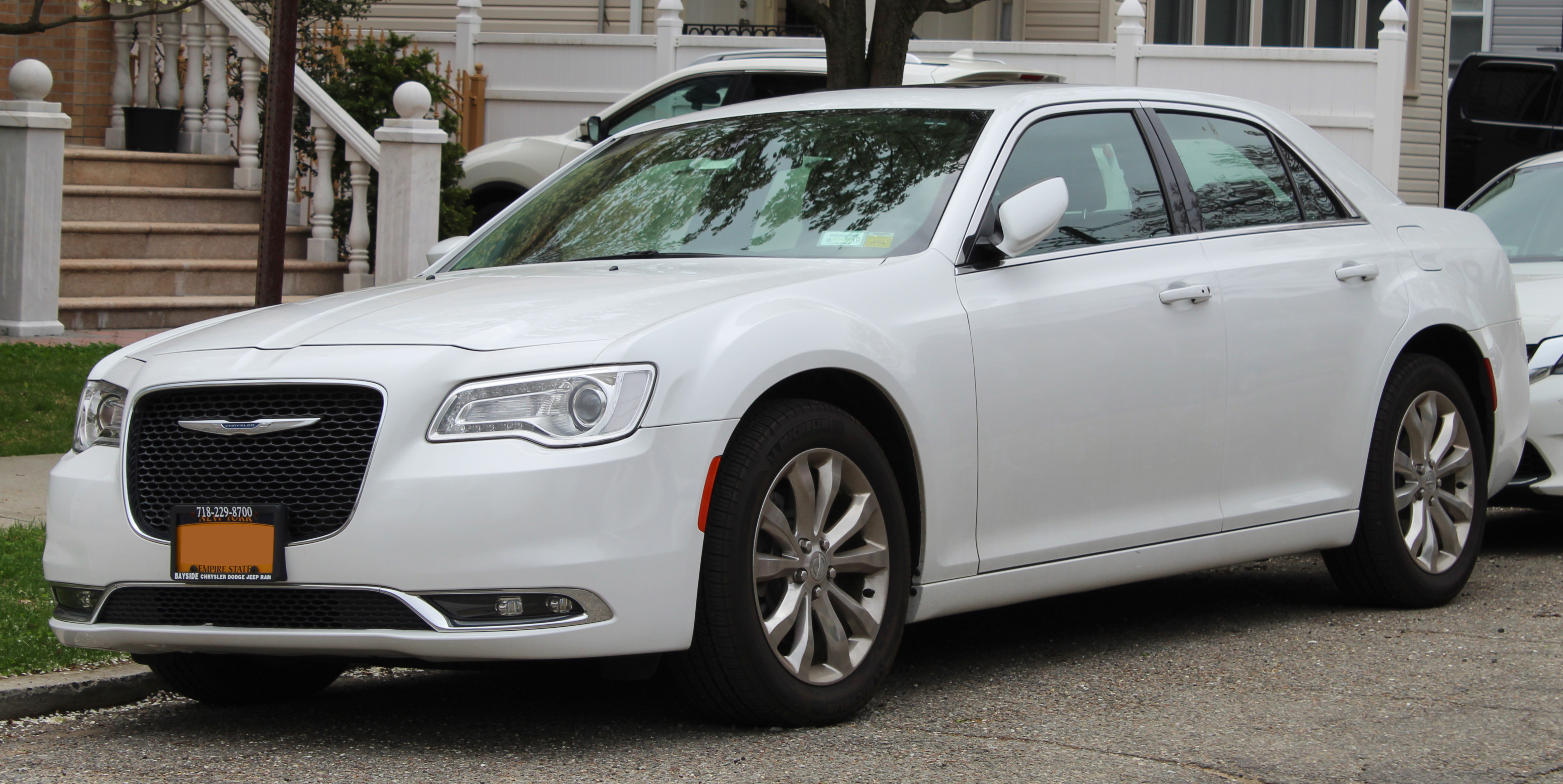 A 2016 Chrysler 300 photographed in Queens, New York, USA